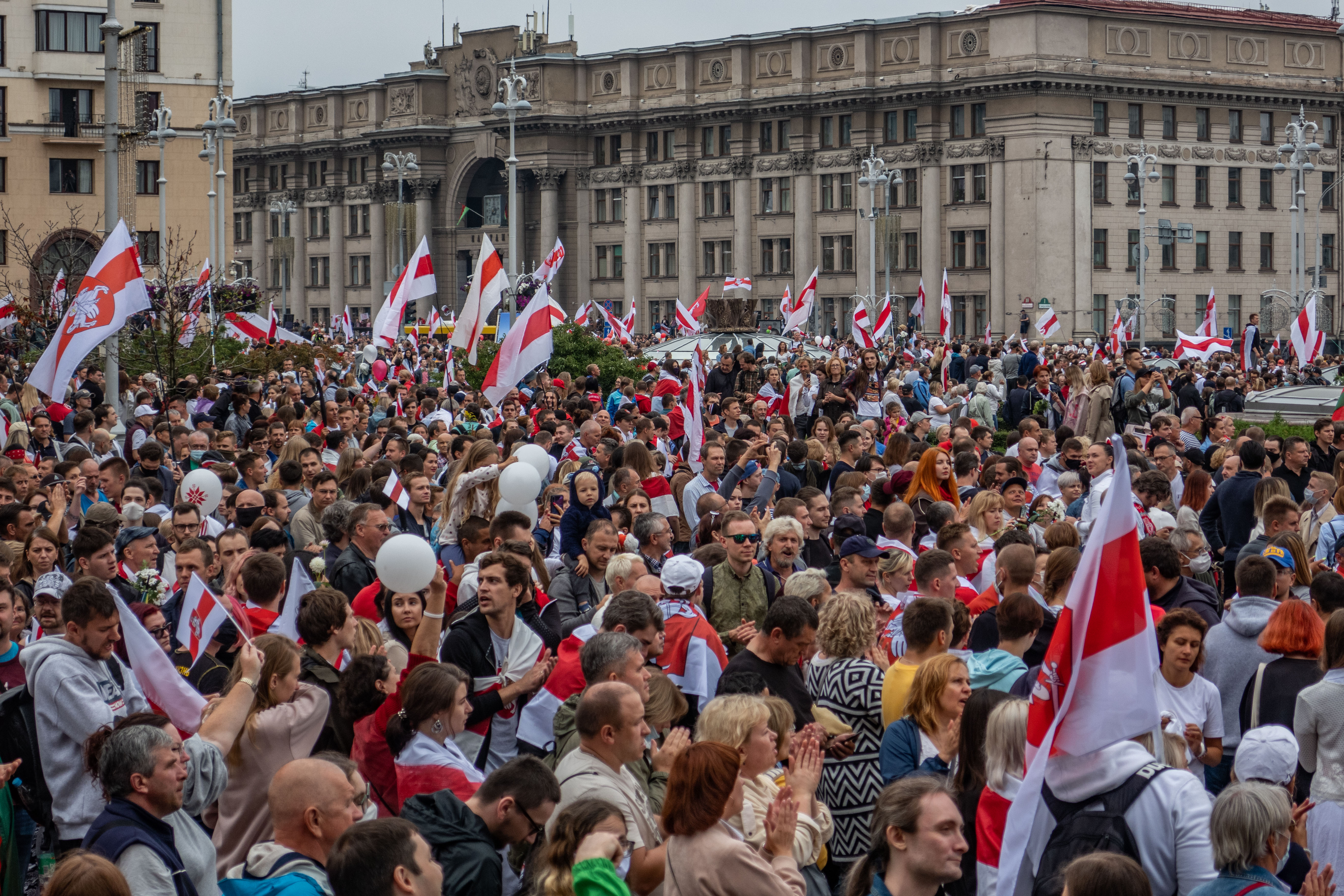 Protest rally against Lukashenko, 23 August 2020. Minsk, Belarus